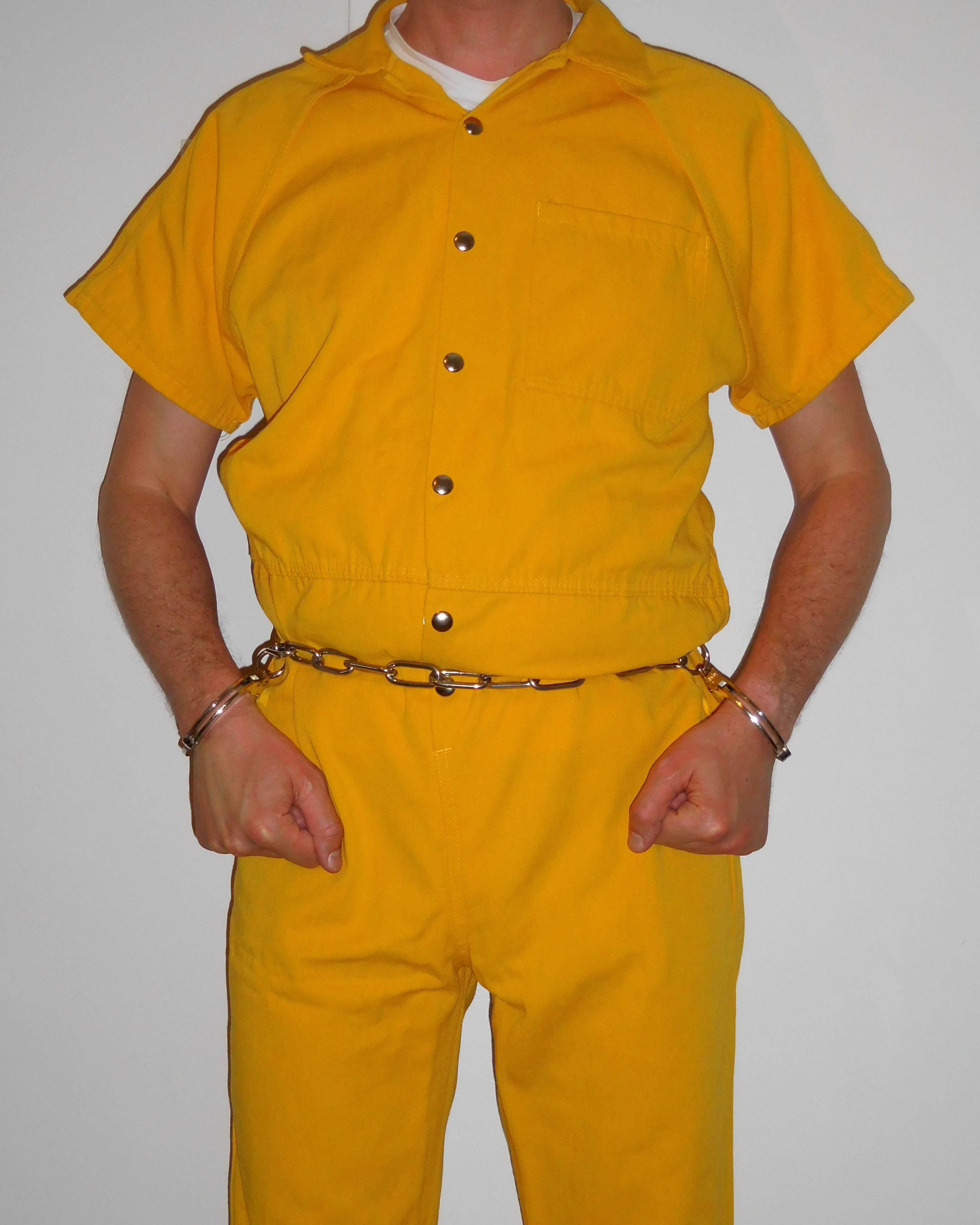 Inmate in yellow institutional coverall restrained with handcuffs on a belly chain. The handcuffs are directly linked to the belly chain at the sides with an o-ring, so that the inmate's hands are tightly attached to his waist; compared to the other models, this provides a rather more severe restraint.